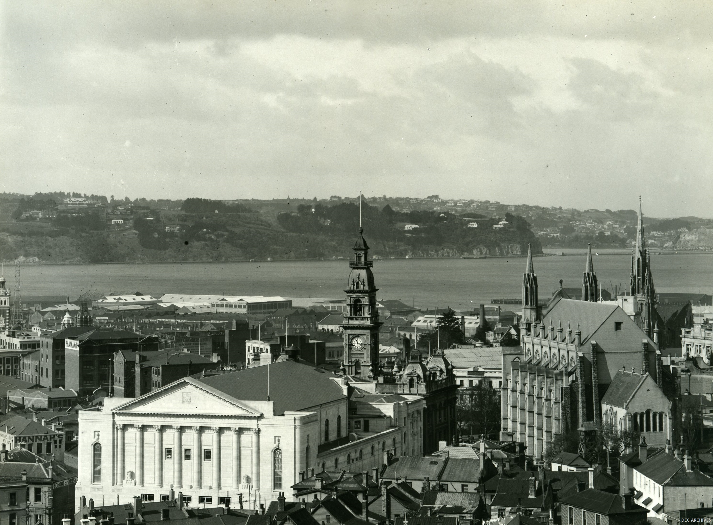 A view of Dunedin looking south towards the Municipal Building, the newly completed Dunedin Town Hall and St. Paul's Cathedral. DCC Archives Photo 160/13.